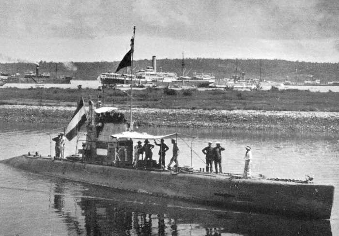 HNLMS K I at Soerabaja in 1916